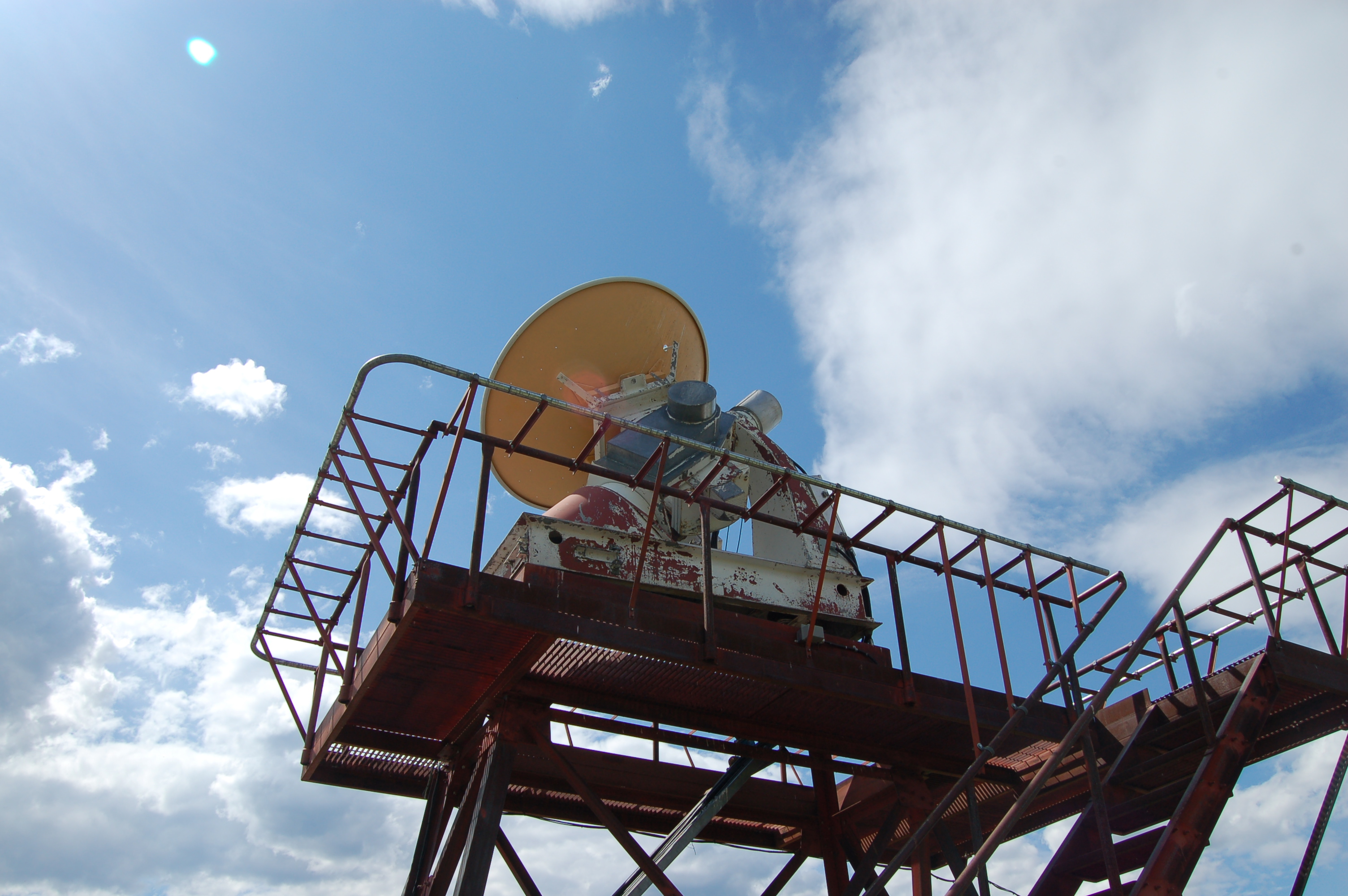 One of two Dominion Radio Astrophysical Observatory 10.7cm solar flux monitoring telescopes. Taken 02 July 2007 by Jason Nishiyama using a Nikon D50.